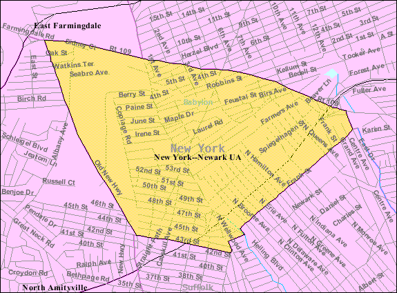 U.S. Census 2000 reference map for North Lindenhurst, New York